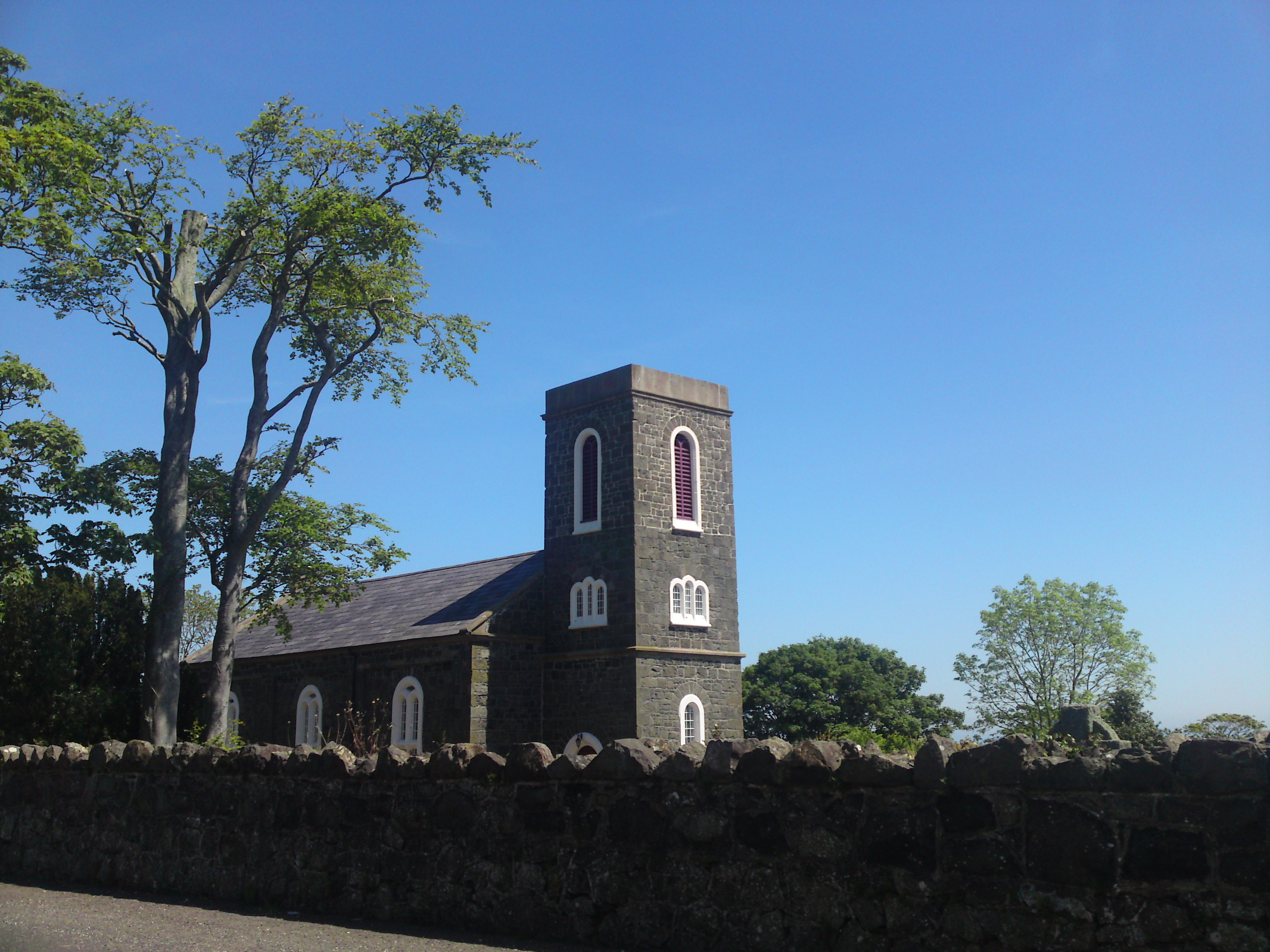 Ardclinis Church of Ireland (St Marys), situated in the Largy Road about 1 and a half miles from Carnlough.